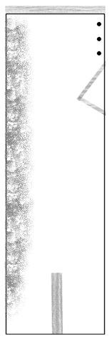 Graphic for the Zabaleko hiru txirlo game